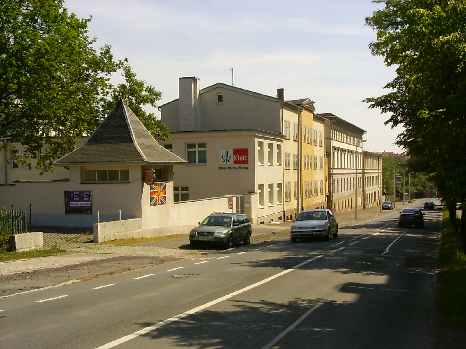 Klett-Perthes Verlag, Gotha